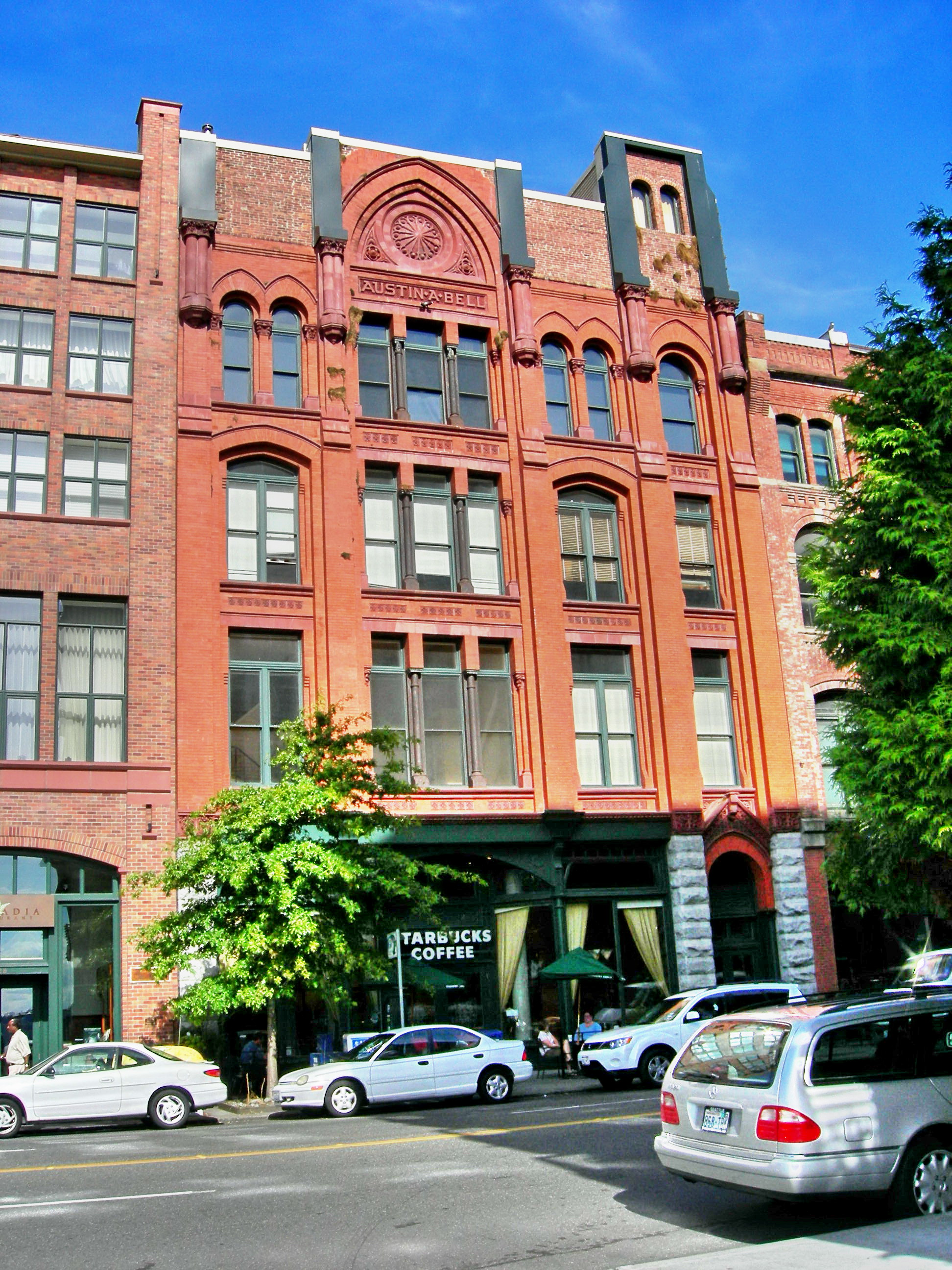 Austin A. Bell Building, also known as Bell Apartments, 2326 First Avenue, Belltown, Seattle, Washington. Designed by Elmer Fisher and built in 1889, the building was originally a hotel. It was damaged in a 1981 fire, but the façade survived, albeit singed. It was remodeled 1997–1999 by architect Chris Snell as condos. On the National Register of Historic Places, ID #74001957.